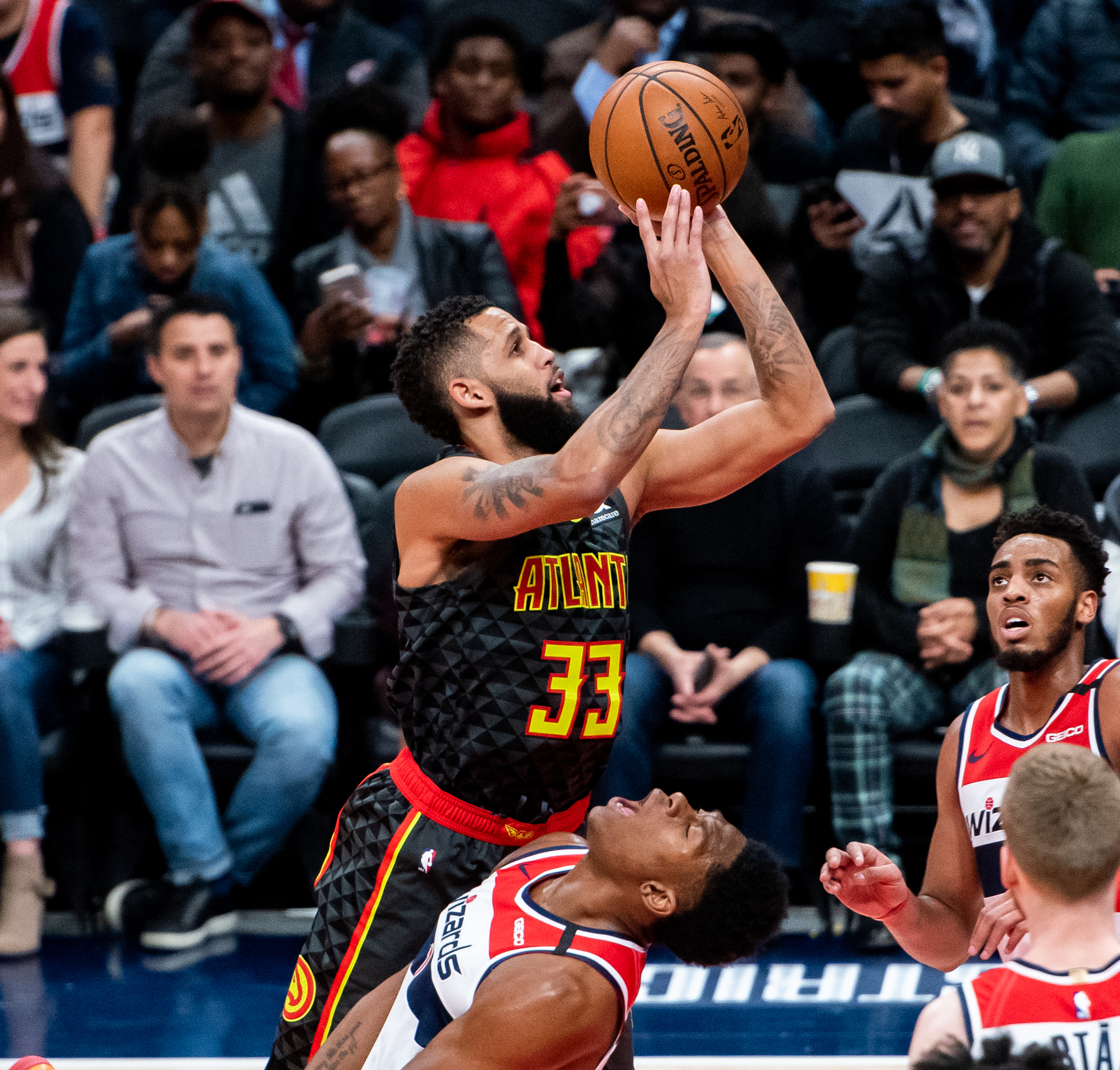 DeAndre Bembry